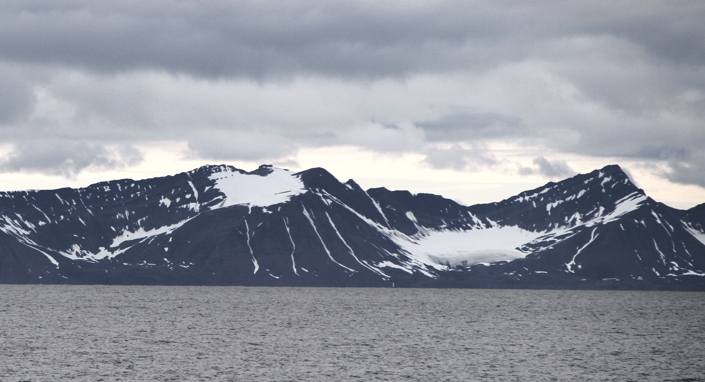 Image from Isfjorden (south) towards north into the southeastern parts of Oscar II Land, central Spitsbergen.